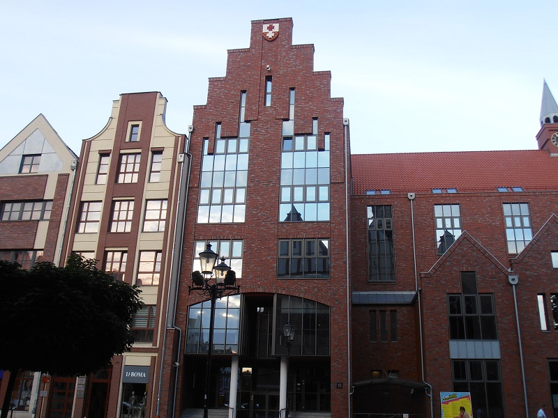 Old City Town Hall in Elbląg